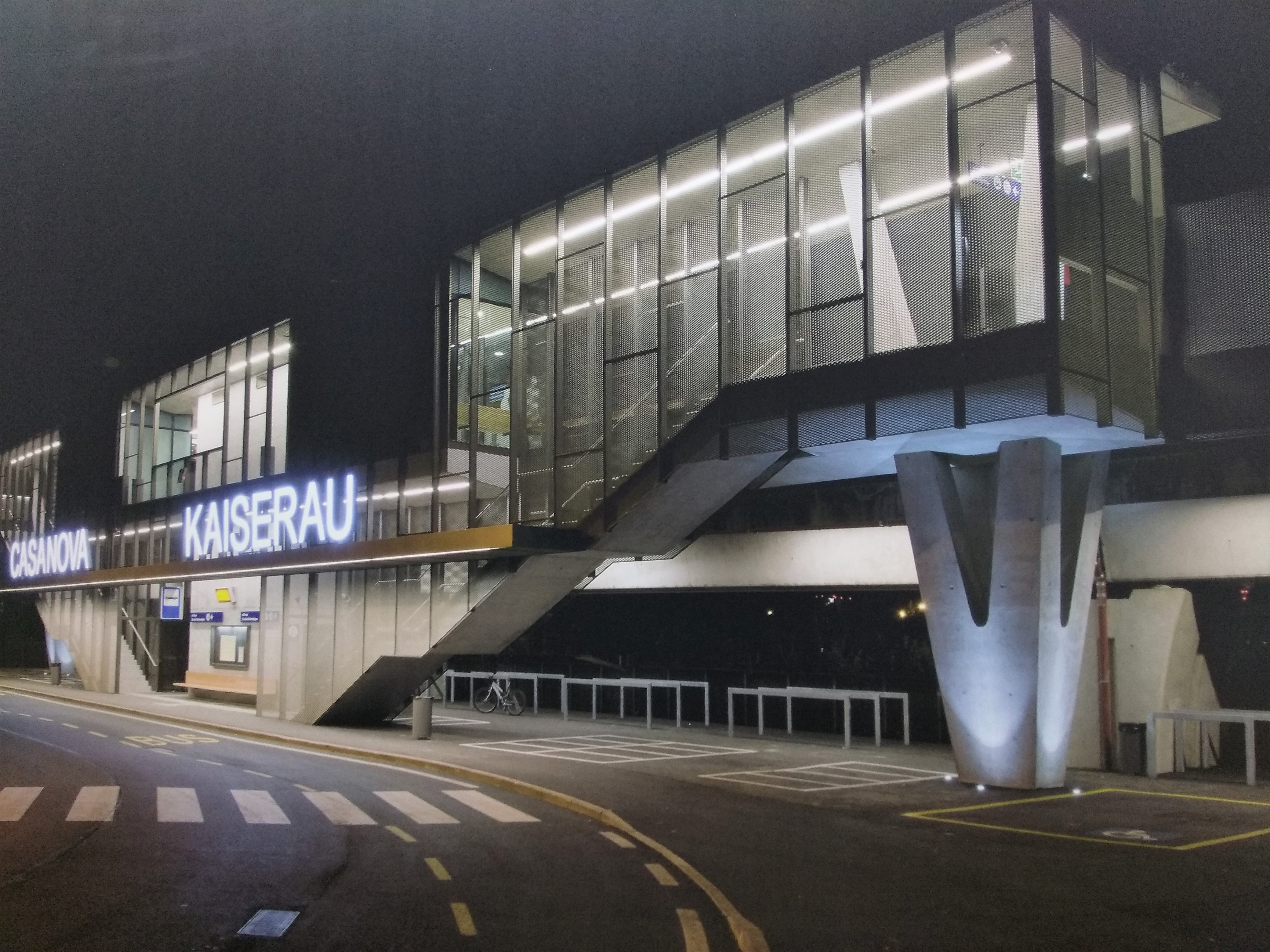 The Casanova-Kaiserau Railway Station in Bozen-Bolzano (South Tyrol), 2018